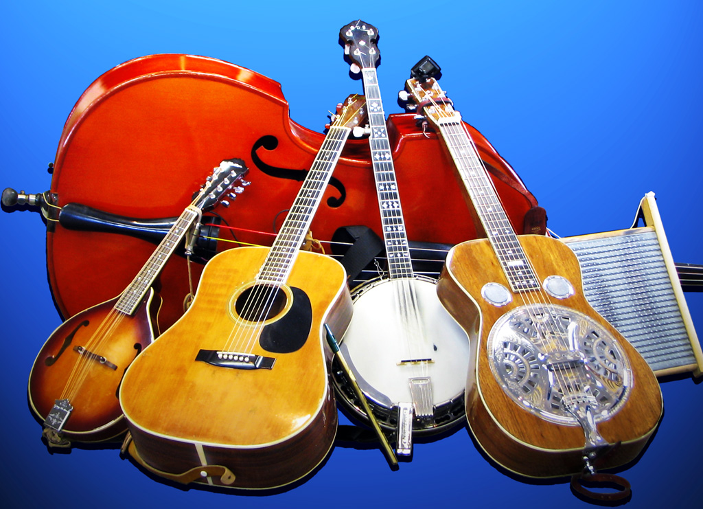 Front row Left to right: Mandolin, guitar, penny whistle, banjo, harmonica, dobro, washboard The recumbent Stand-up Bass is in the back row. Crossover Junction